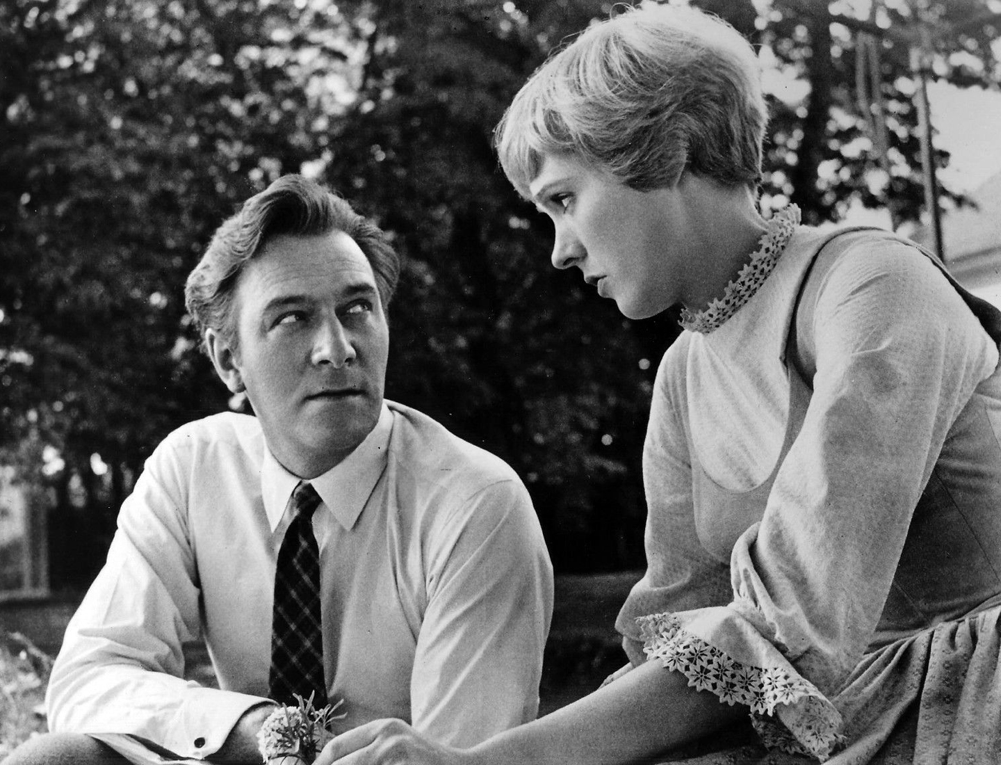 Christopher Plummer and Julie Andrews on location in Salzburg during the filming of The Sound of Music, 1964